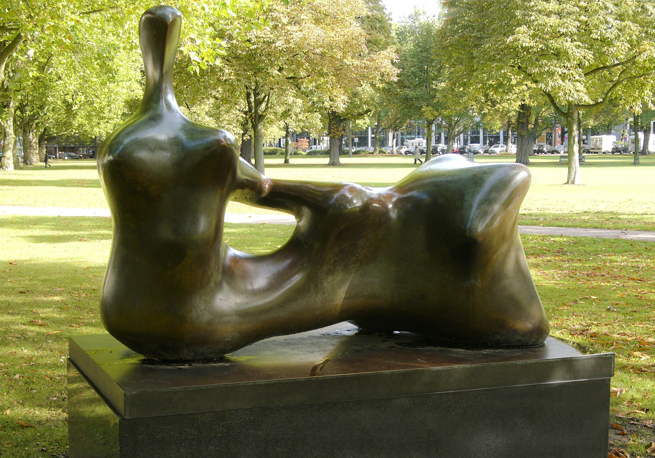 Reclining Figure: Hand by Henry Moore (1898-1986) in 1979, located in Hamburg, Germany